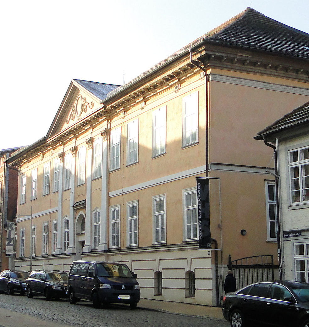 The listed building Brandensteinsches Palais (Palace of Brandenstein) in Puschkinstrasse 13 in Schwerin, Mecklenburg-Vorpommern, Germany